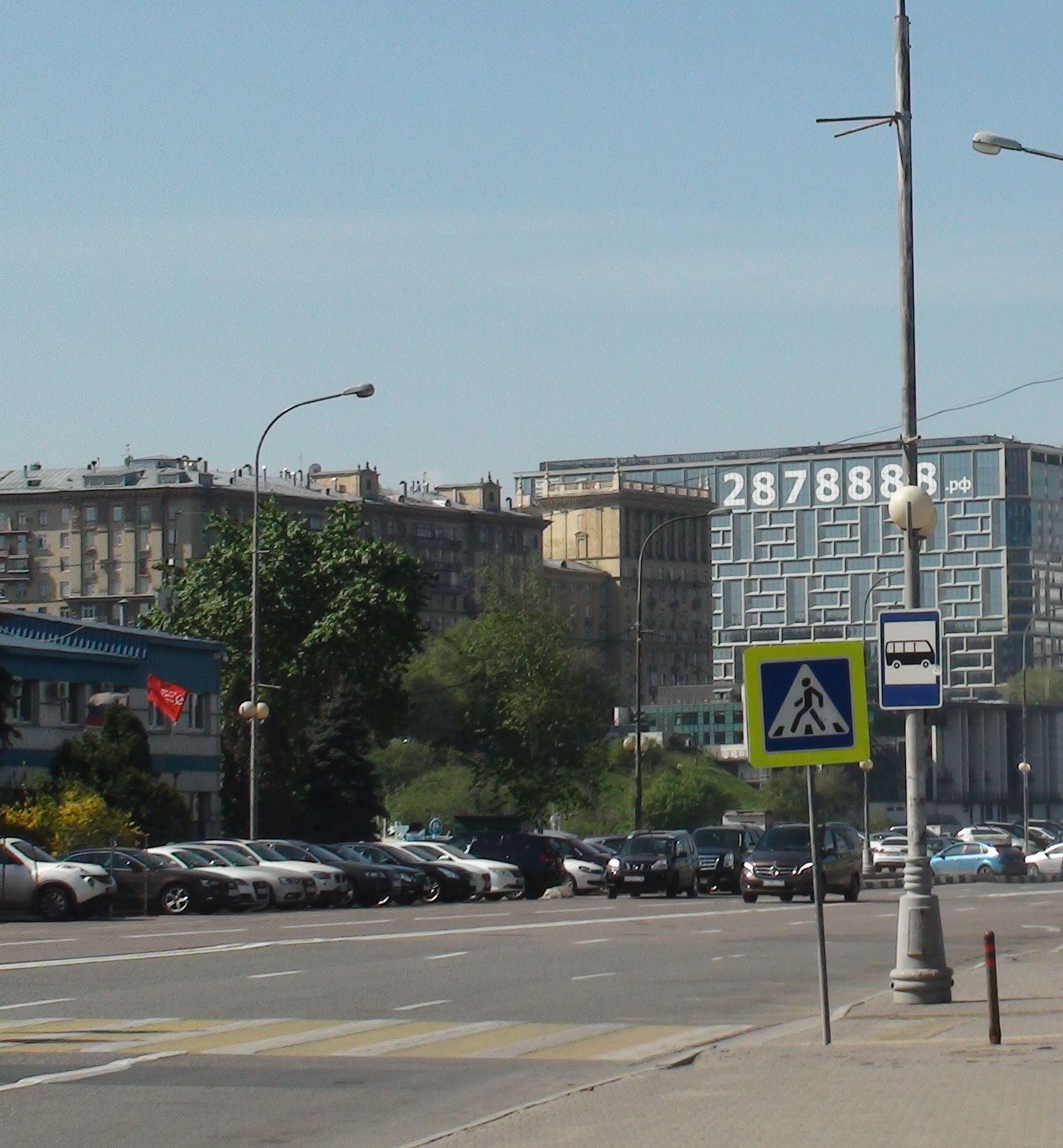 Пресненская набережная Москва. Большие здания в кадре - это уже на другом берегу, набережная Тараса Шевченко - Кутузка.